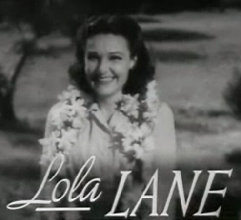 Cropped screenshot of Lola Lane from the trailer for the film Four Daughters (1938).